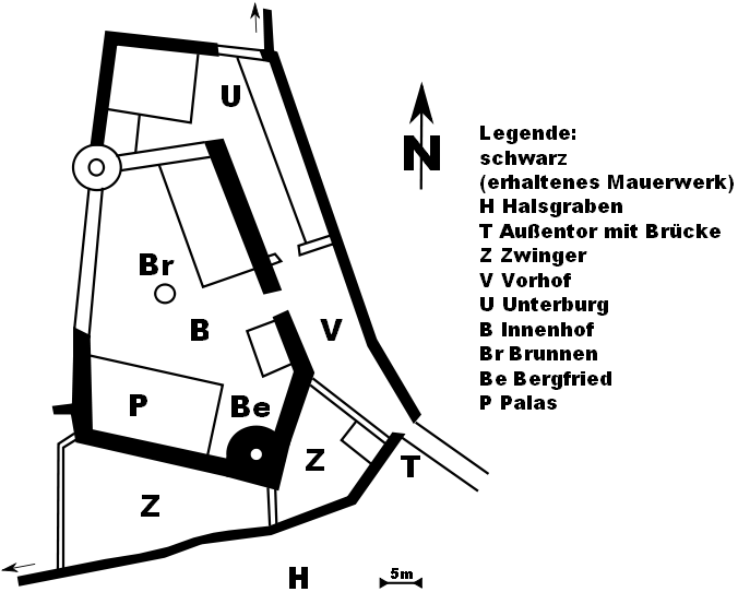 Plan of castle Strahlenburg, Schriesheim, Germany